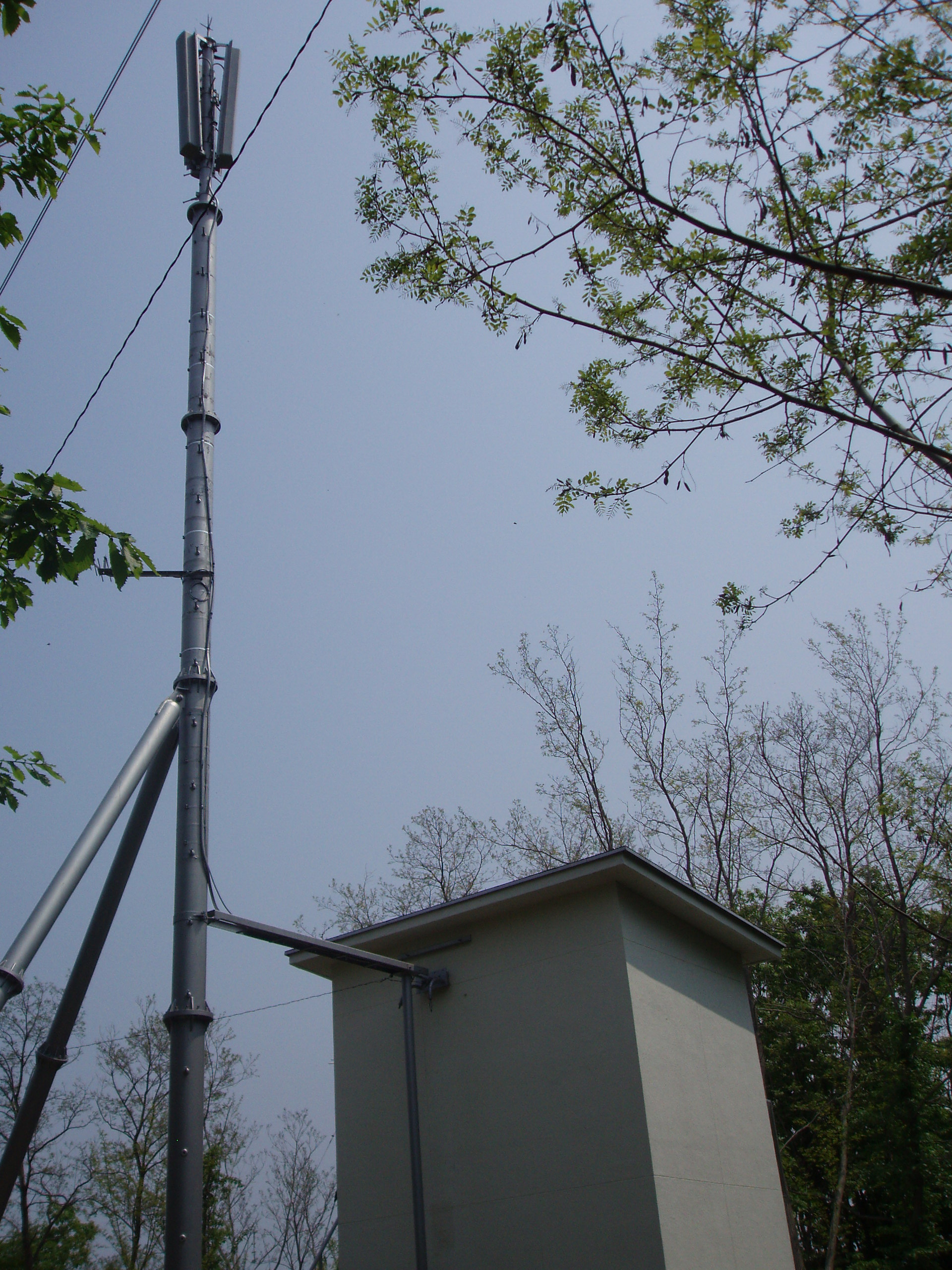 NHK transmitter at the Yoichi Television Broadcasting Relay Station